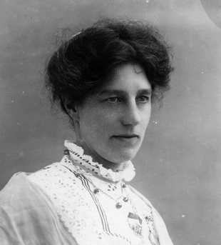 Suffragette Marie Brackenbury in about 1910 taken by Linley Blathwayt. Taken from bathintime which claims copyright on this 100 year old pic with a photographer who died 98 years ago/